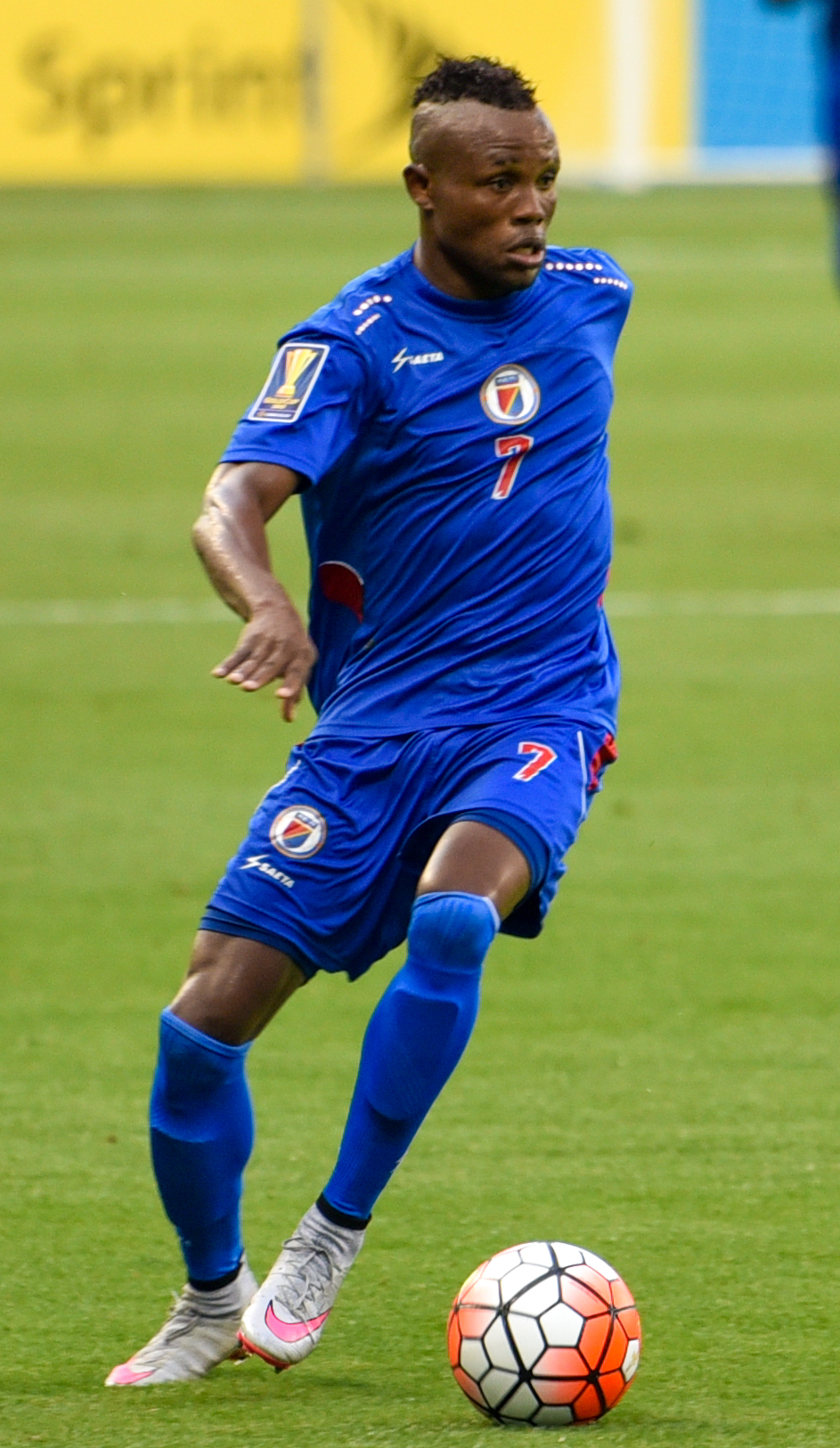 Wilde Donald Guerrier playing for Haiti's Men's National Team against Honduras in the Gold Cup, Sporting Park, Kansas City, Kansas, 13JUL2015